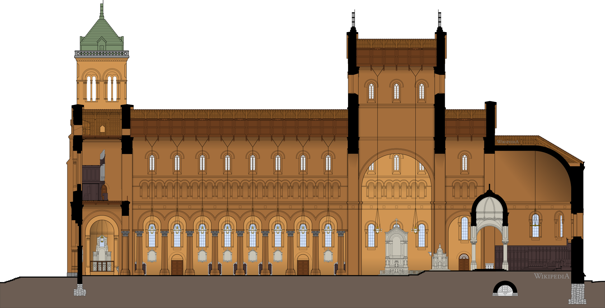 Longitudinal section of the Cathedral of Medellín, Colombia.